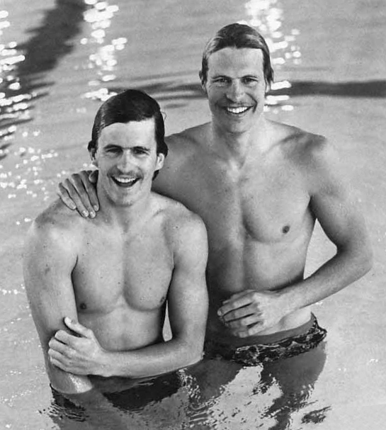 Barechested Swimmers Bruce Steve Furniss VINTAGE Photo XXI Olympic Games 1976